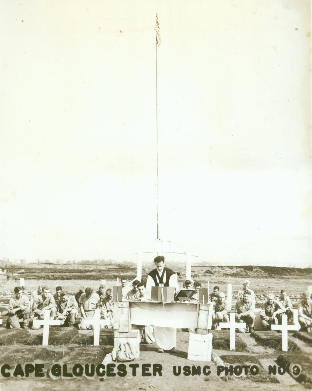 From the Frederick R. Findtner Collection (COLL/3890), Marine Corps Archives & Special Collections OFFICIAL USMC PHOTOGRAPH